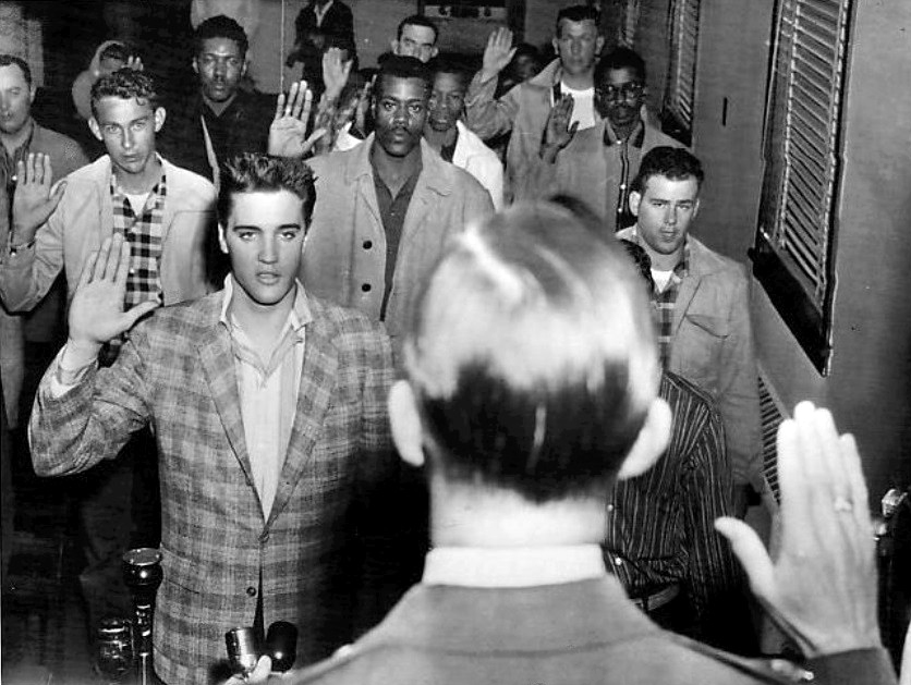 Photo of Elvis Presley and a roomful of other young men being sworn into the US Army as part of their induction at Fort Chaffee, Arkansas.